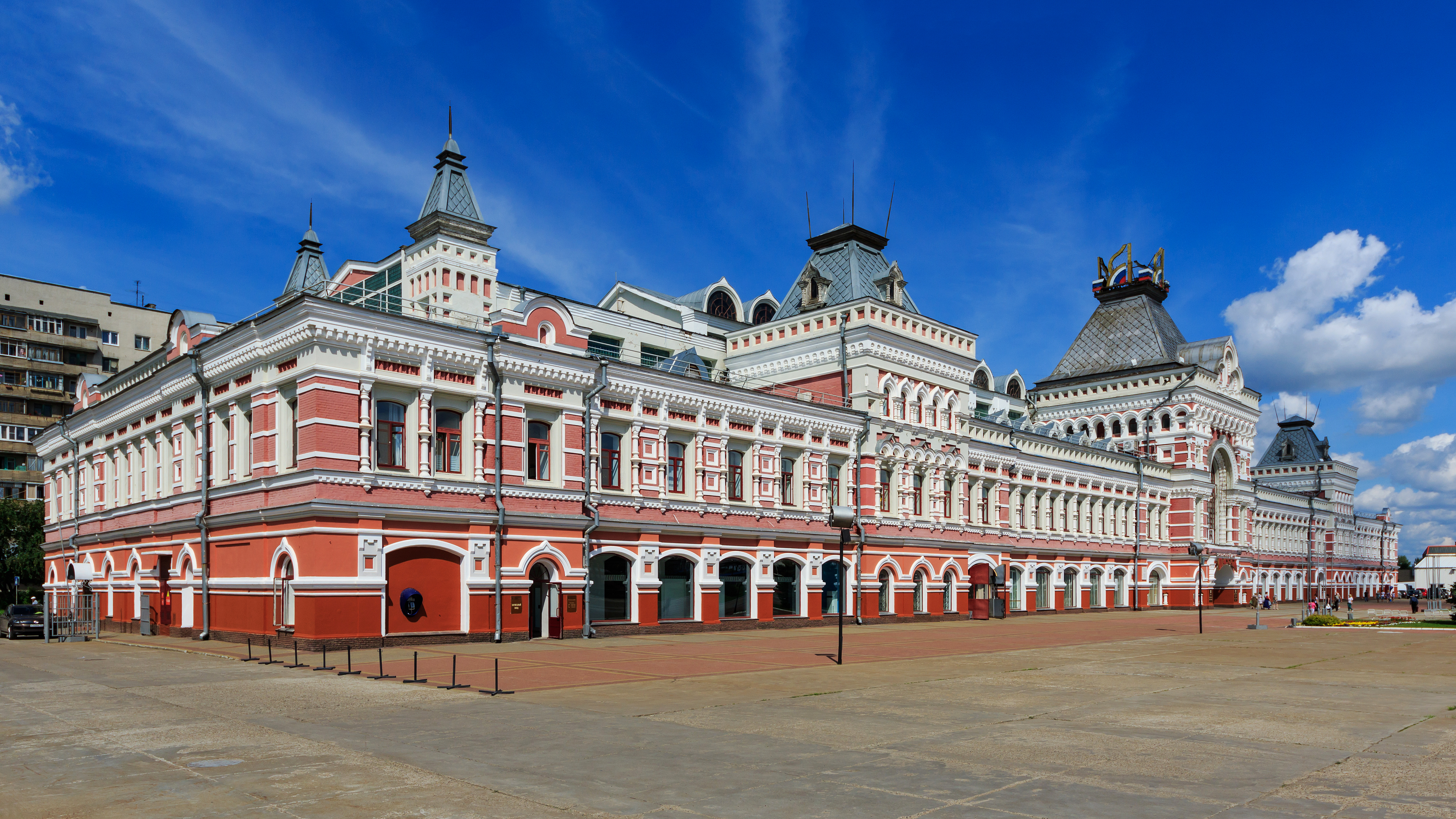 Main building of the Trade Fair in Nizhny Novgorod, Russia